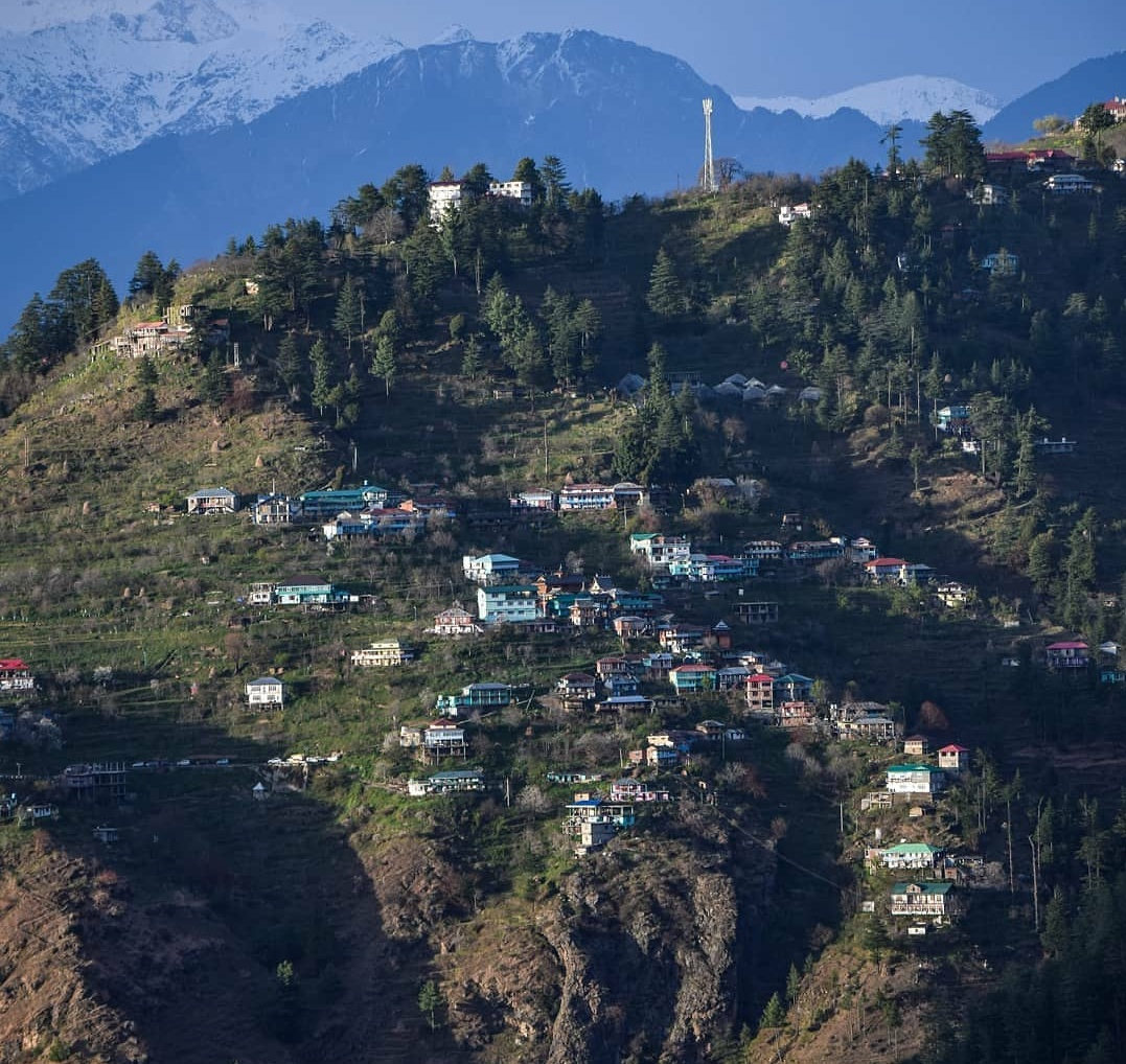 View of Kotgarh Village